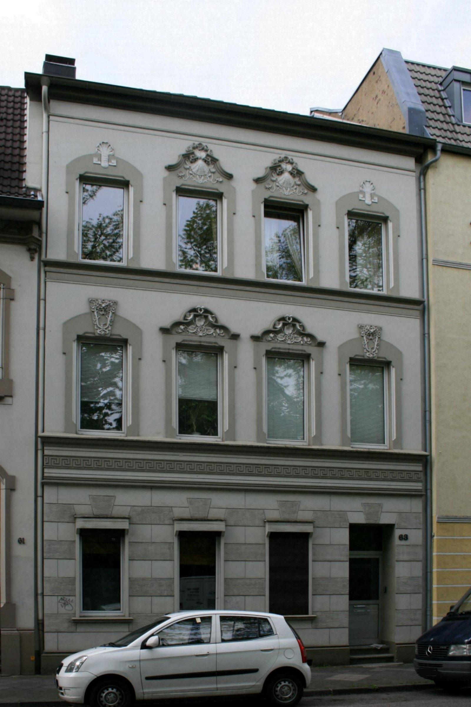 Cultural heritage monument No. B 146 in Mönchengladbach